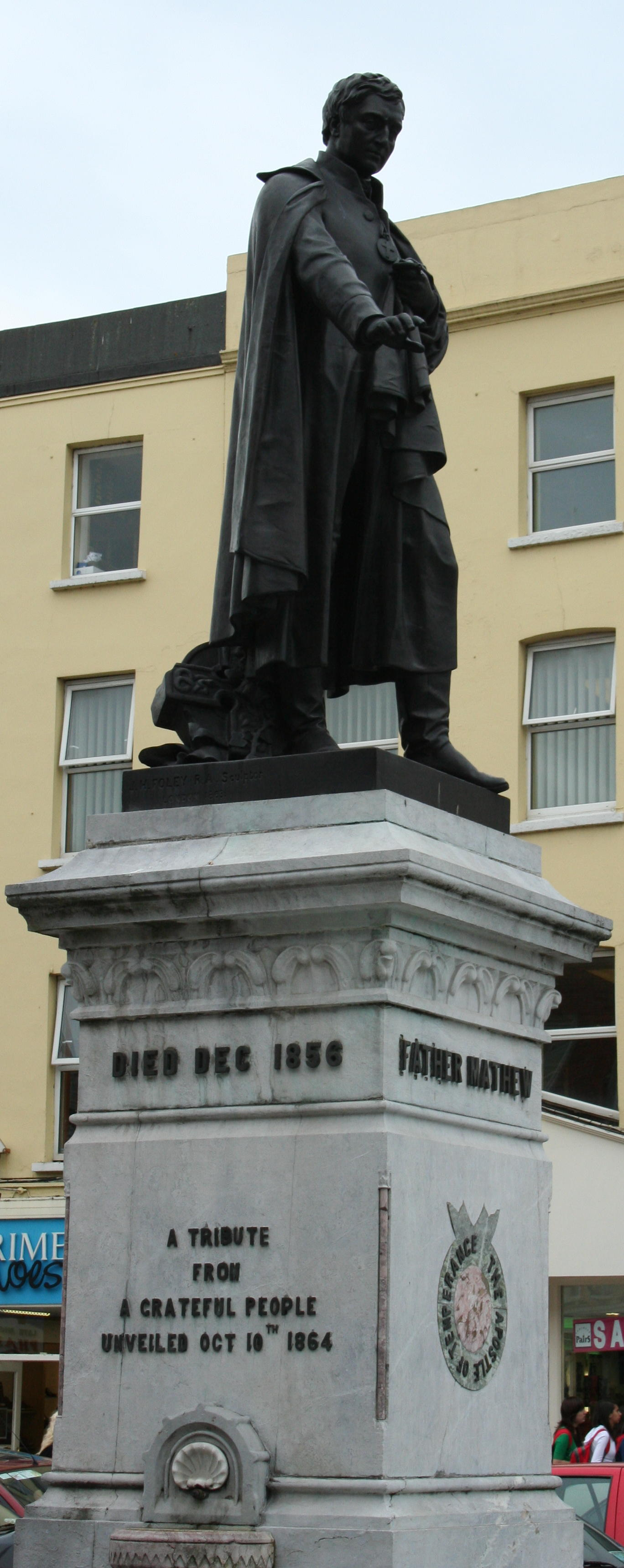 Statue of Fr. Matthew in St. Patrick Street, Cork Credit: A Peter Clarke image